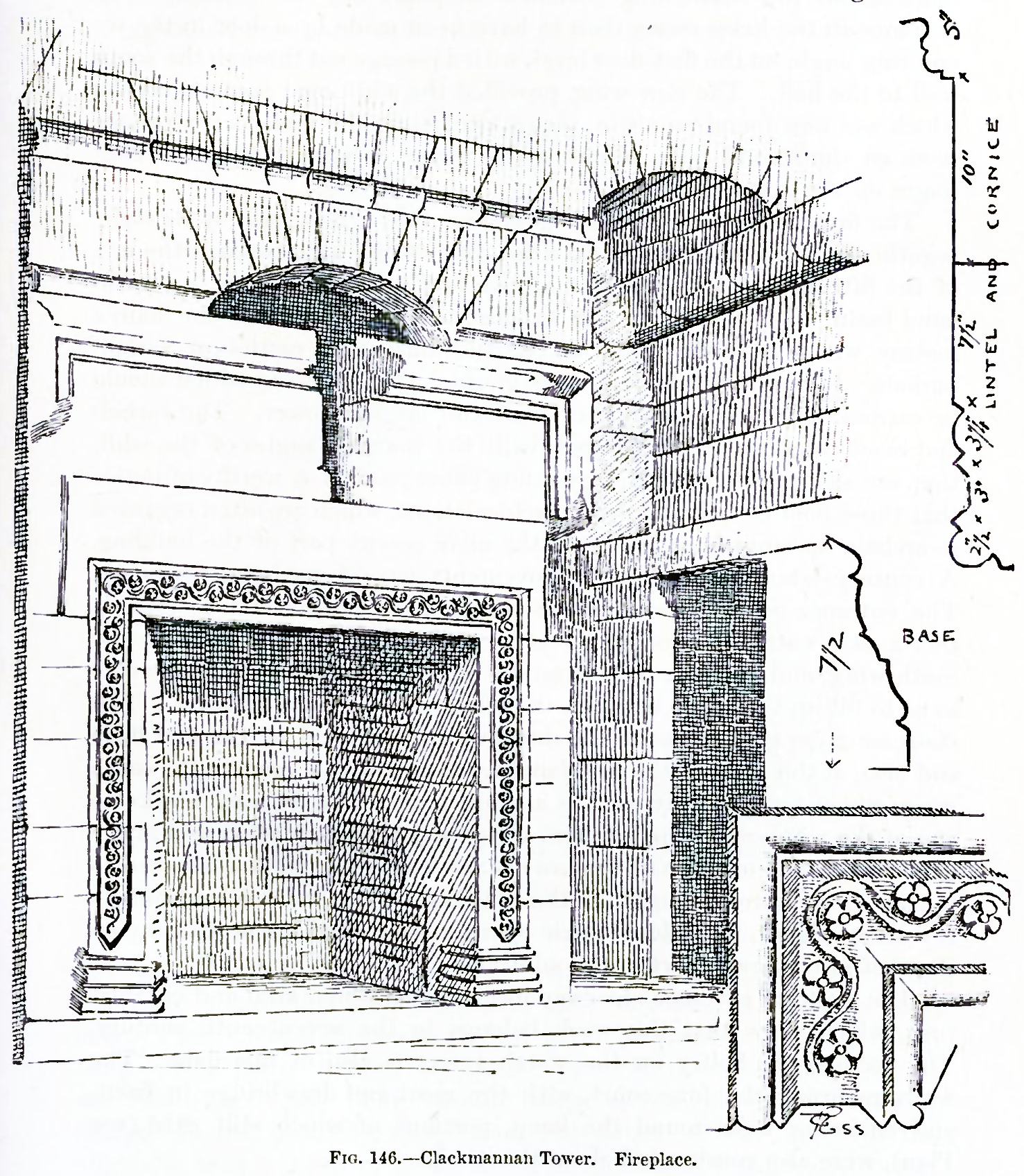 Clackmannan Tower, Scotland.